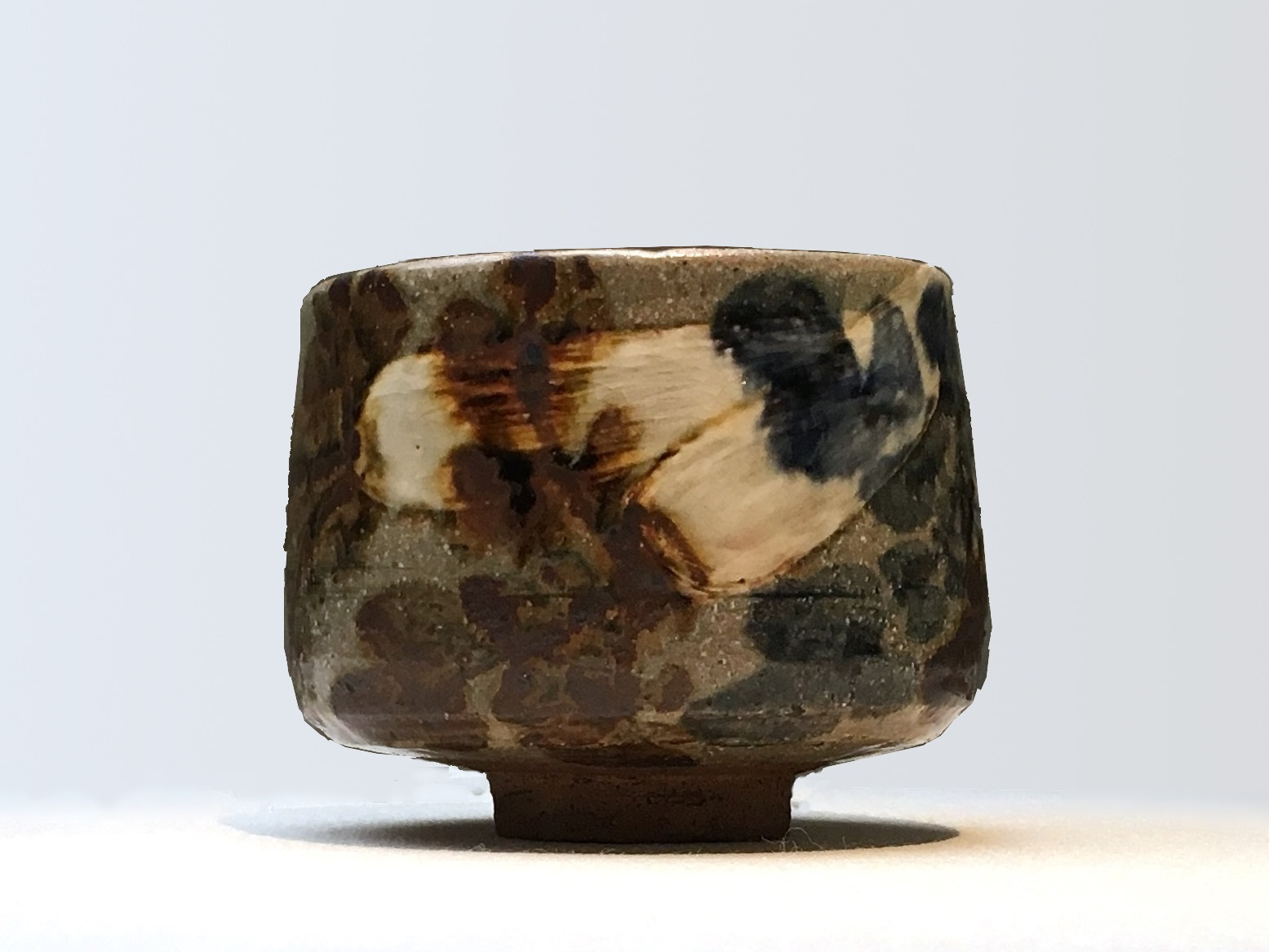 Bowl earthenware, white slip, decoration painted in blue and brown under a transparent glaze Ofuke kiln in the castle of Owari Tokugawa, Owari (Aichi) Edo period, first half of 19th century private collection Notes: The bowl has a feature with the glazed white mud technique in imitation Ogata Kenzan's style. Under the foot there is a gourd-shaped stamp with the name "Fukai". At the top side of the box cover, there is a writing in India ink "Gonouchi" and at the inner side of the box cover the writing "Ofukei-yaki/ Kanzan saku / Uutsushi / chawan / Gengen" (handwritten monogram: Urasenke 11th generation Iemoto Gengensai [玄々斎])